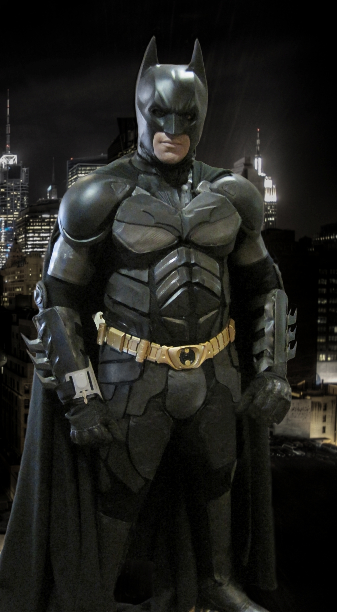 Batman Cosplay on city background at night